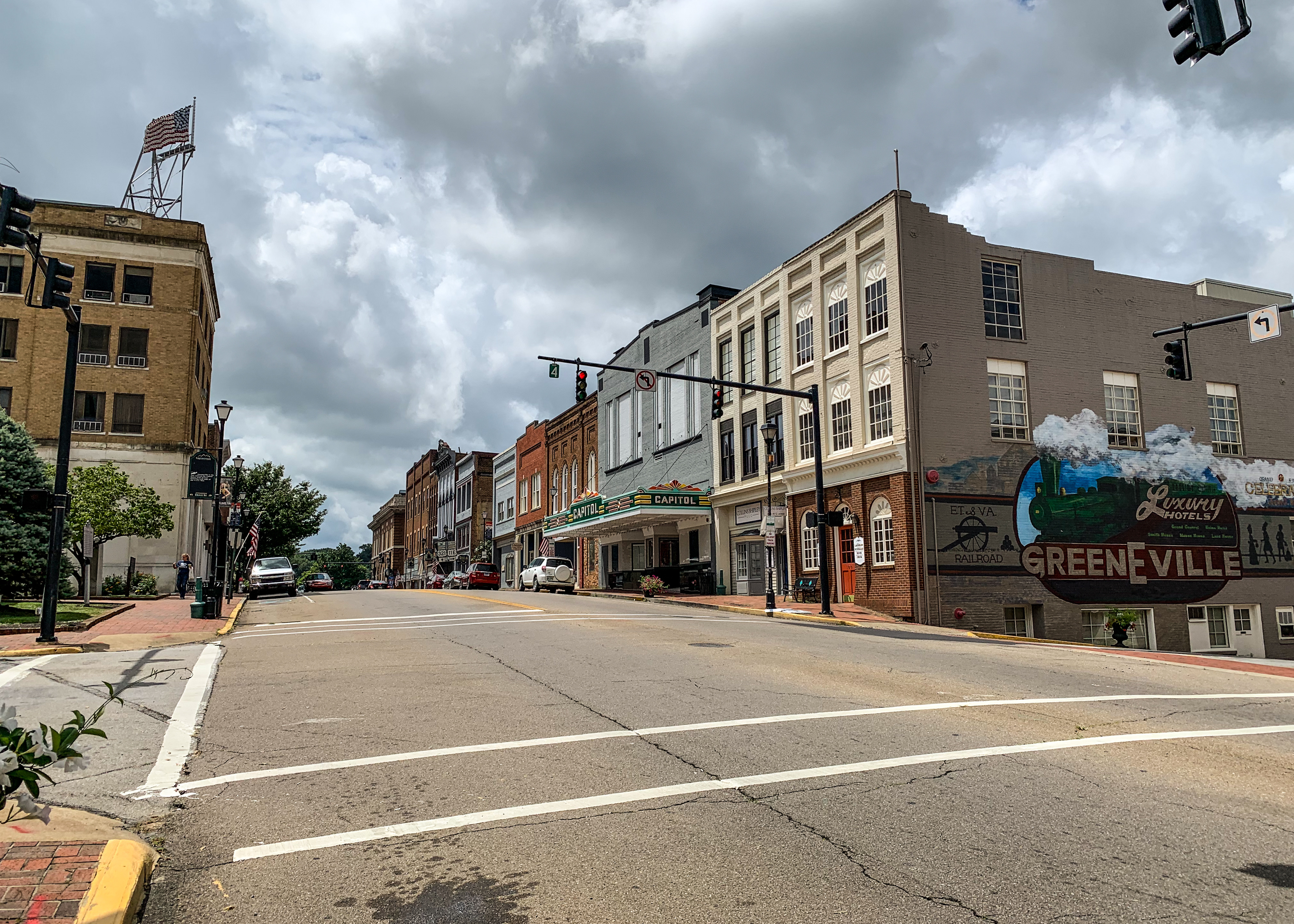 The intersection of Main Street and Depot Street in downtown Greeneville, Tennessee